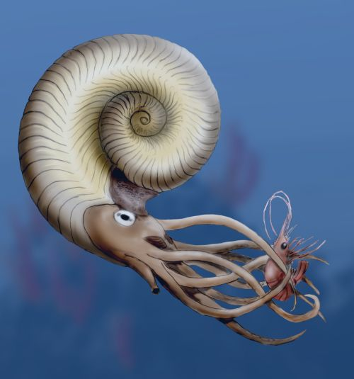 Harpoceras